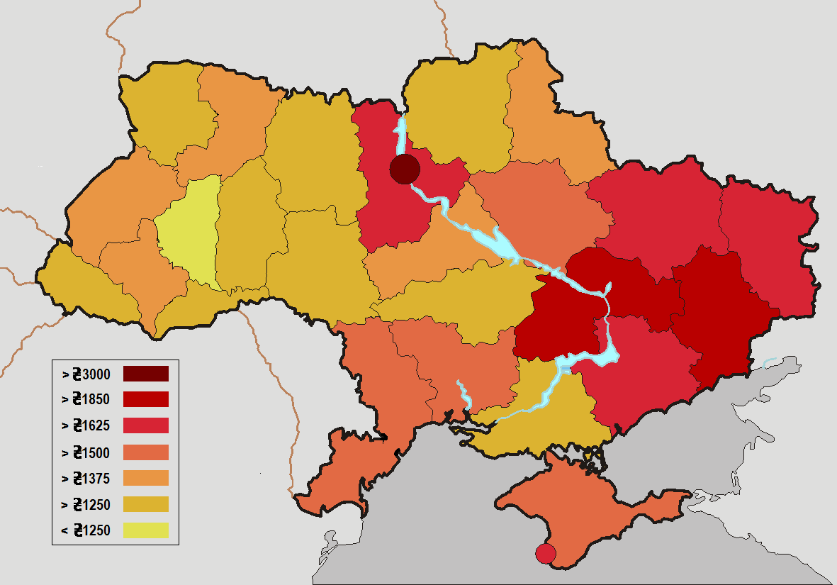 A map of Ukrainian monthly salary averages by oblast. All figures are in the Ukrainian hryvnia. The map, as is Ukraine, is divided into 24 oblasts, one autonomous republic (Crimea), and two "cities with special status" (Kiev, and Sevastopol). Information is taken from The State Statistics Committee of Ukraine, and was updated as of April, 2008. Source: English Wikipedia. Author Bogdan